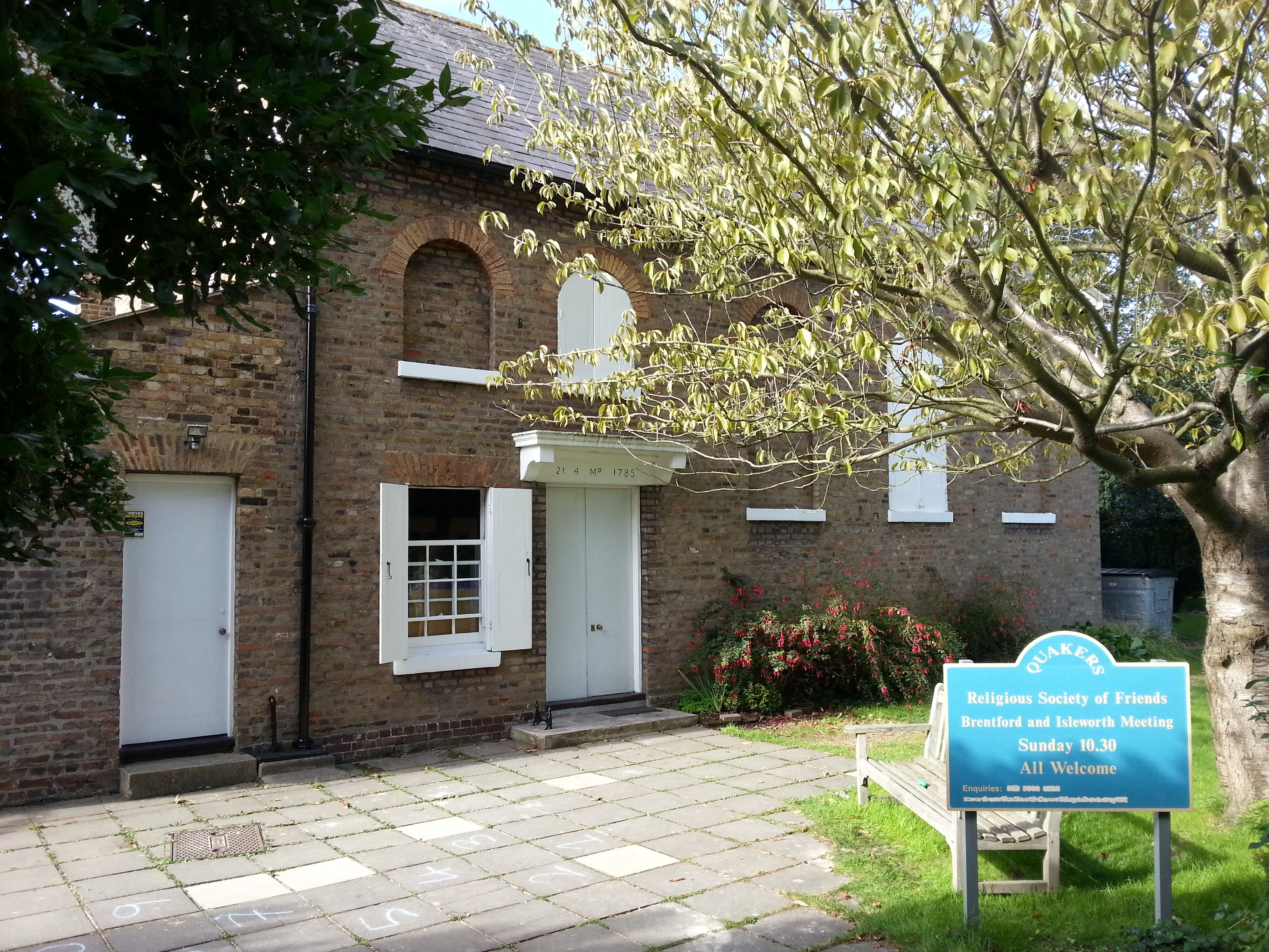 Quaker Meeting House, Quaker Lane, Isleworth, Middlesex